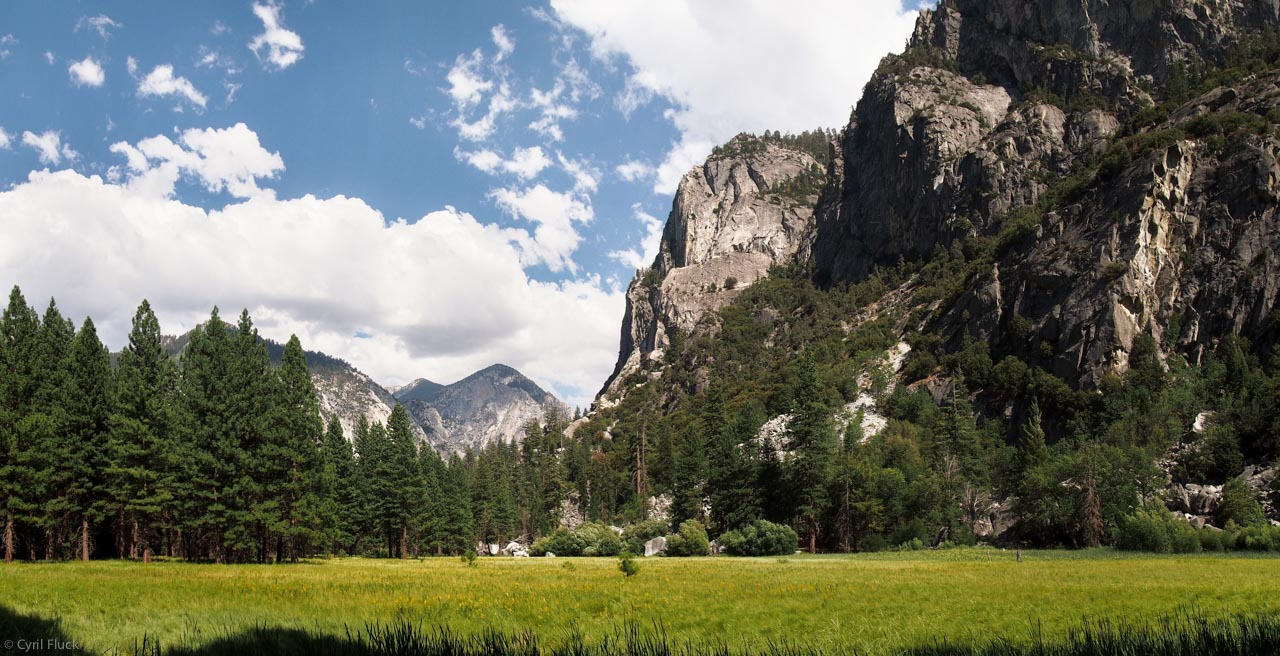 Zumwalt Meadow along the South Fork Kings River, Kings Canyon National Park, California